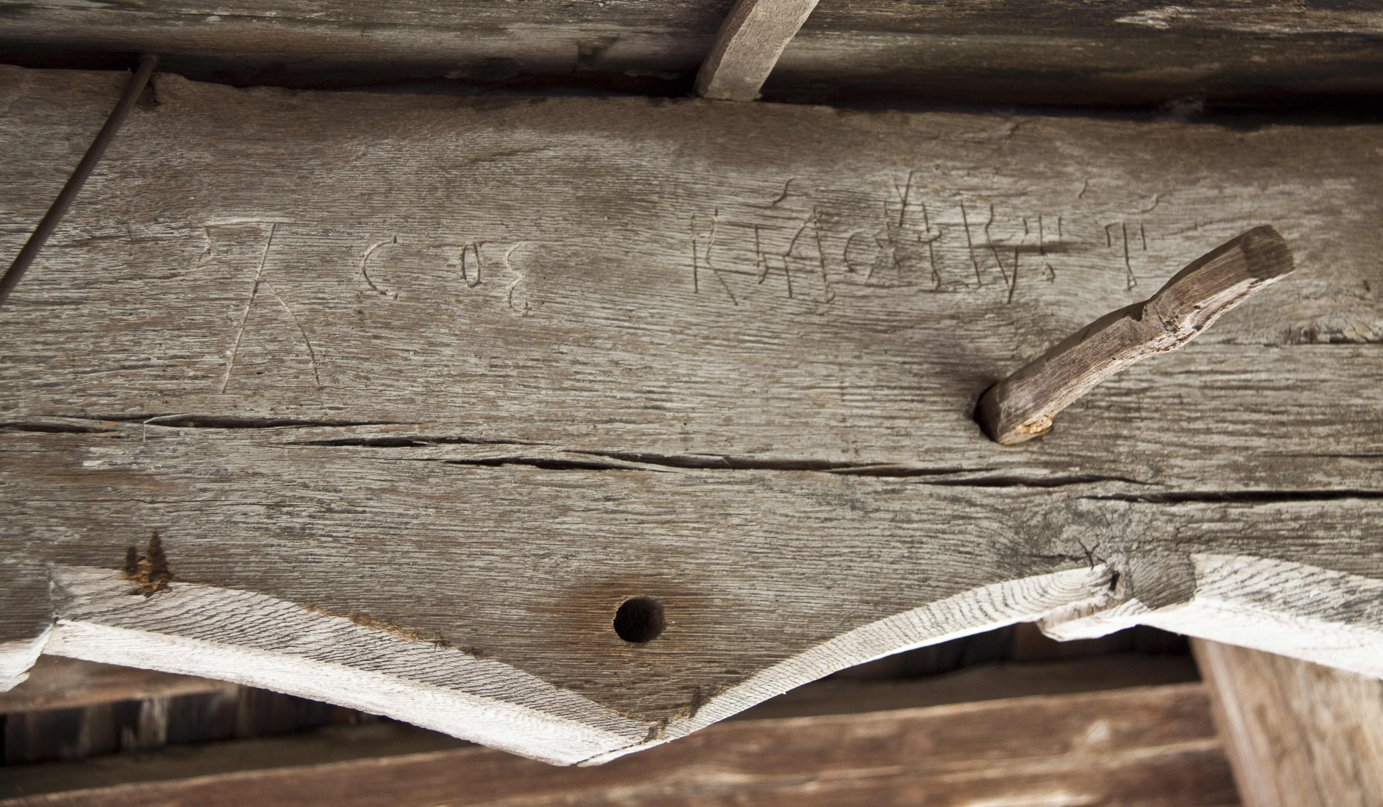 Amărăşti, Vâlcea county, Romania: the wooden church, veranda, inscription from 7275.